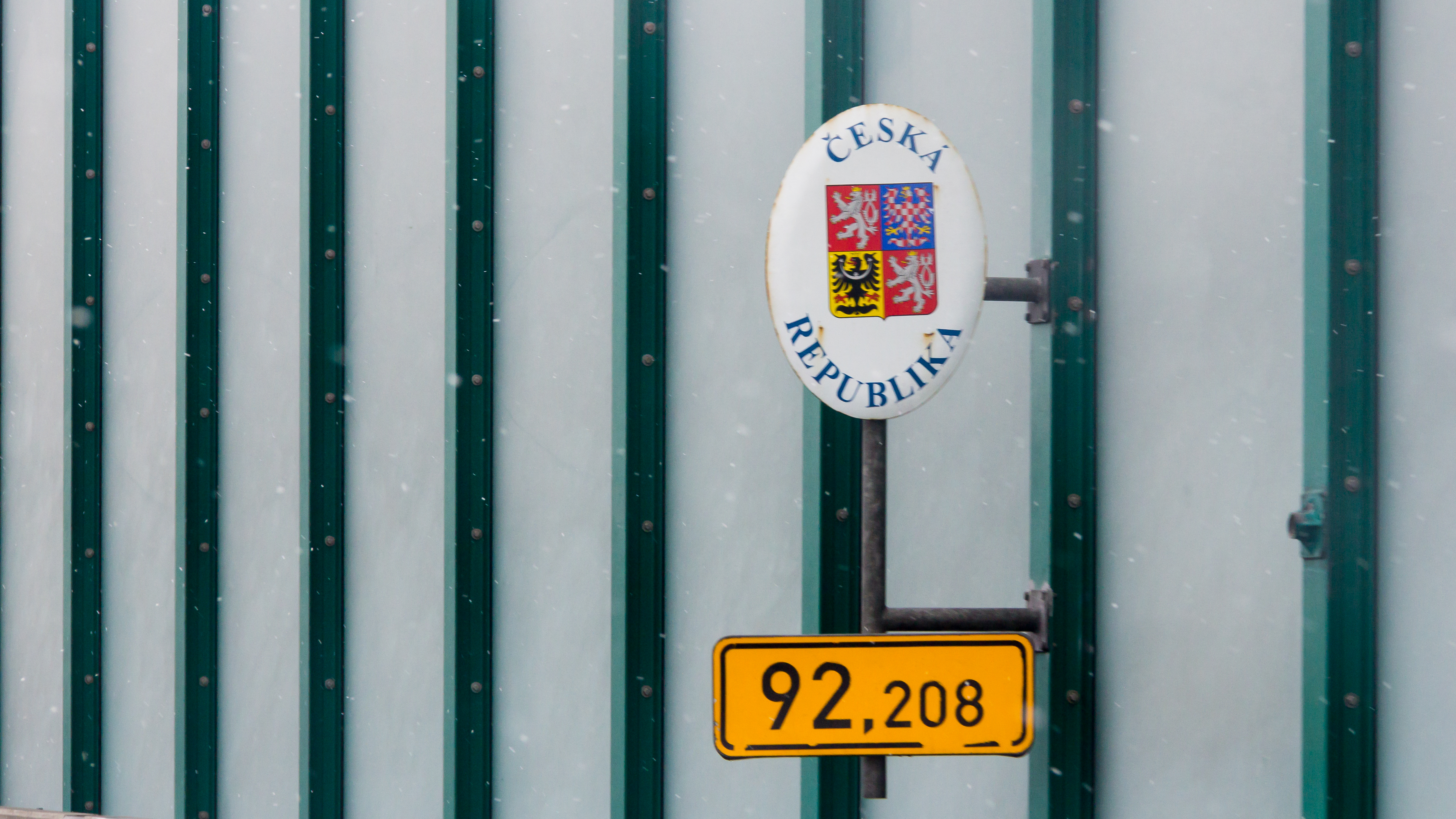 Germany-Czech state border, highways A17-D8, snowfall